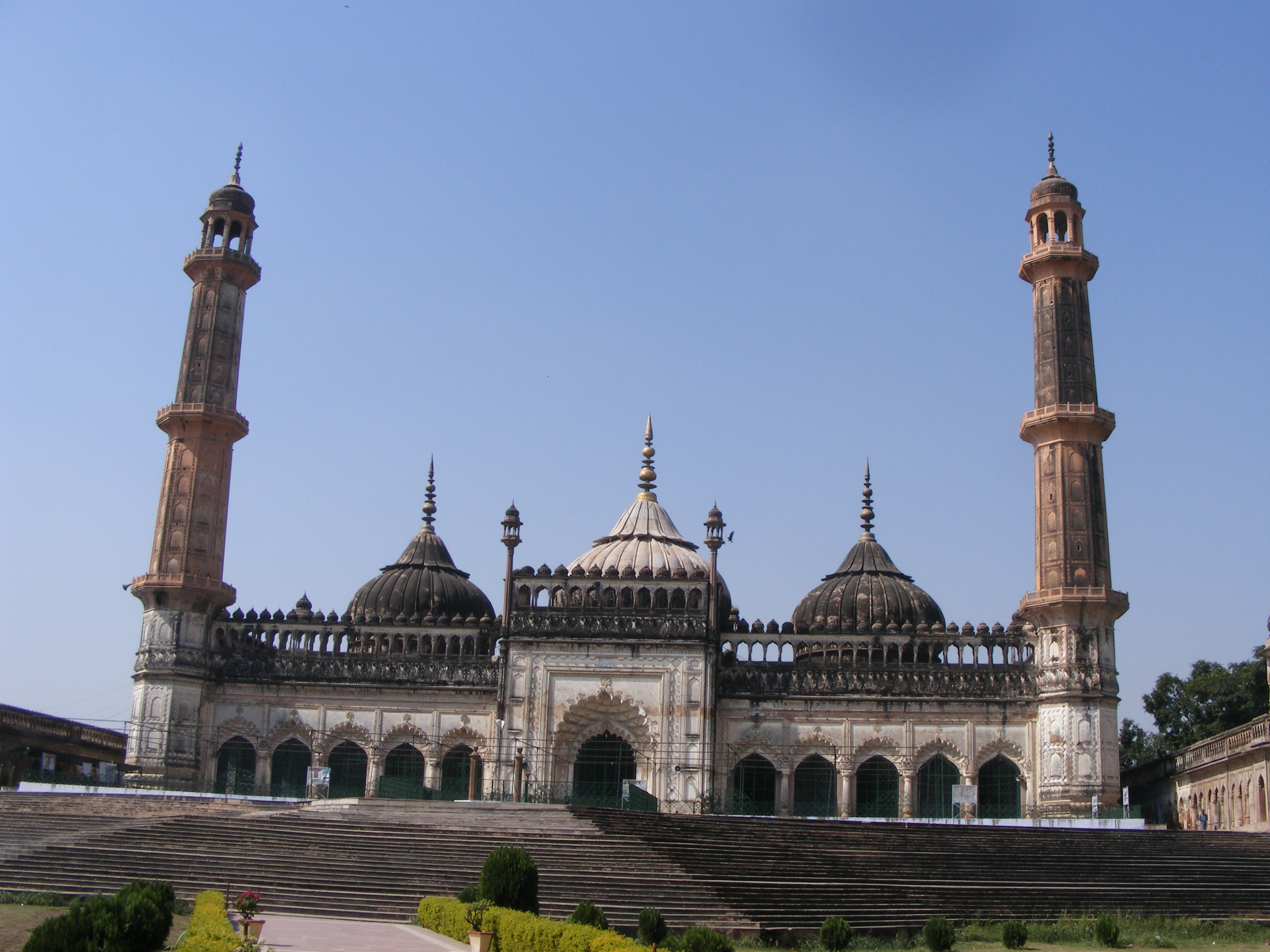 this is the ancient mosque built originally within the complex of the bara imambara , facing the shahi bauli